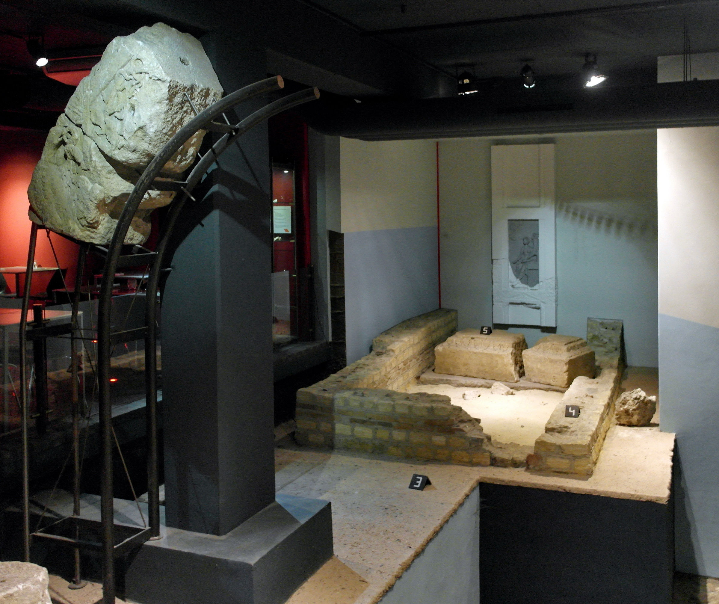 Museumkelder Derlon in the basement of Hotel Derlon in Maastricht, the Netherlands. The museum features the 1983 archaeological excavations of an ancient Roman shrine from the 2nd century AD. The sanctuary stood along the main road from Tongres via Maastricht to Cologne, close to the bridge over the river Meuse. It consisted of an enclosed courtyard with a Jupiter column and a number of smaller monuments. In the foreground the reconstructed gate with two original carved stones.